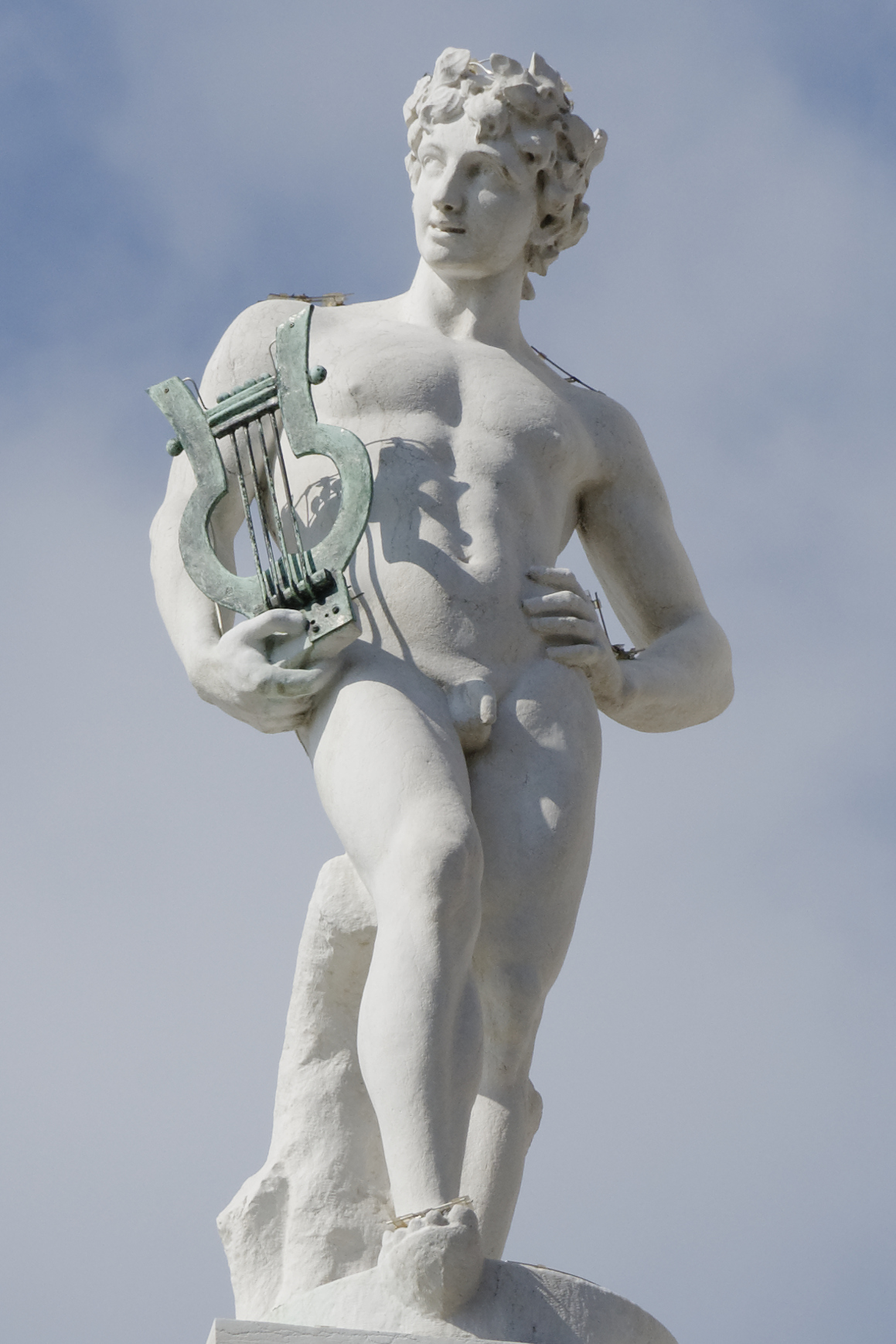 Statue of a mythological figure bearing a lyre (Orpheus or Apollo?), balustrade of the Biblioteca Nazionale Marciana, piazzetta, Venice.